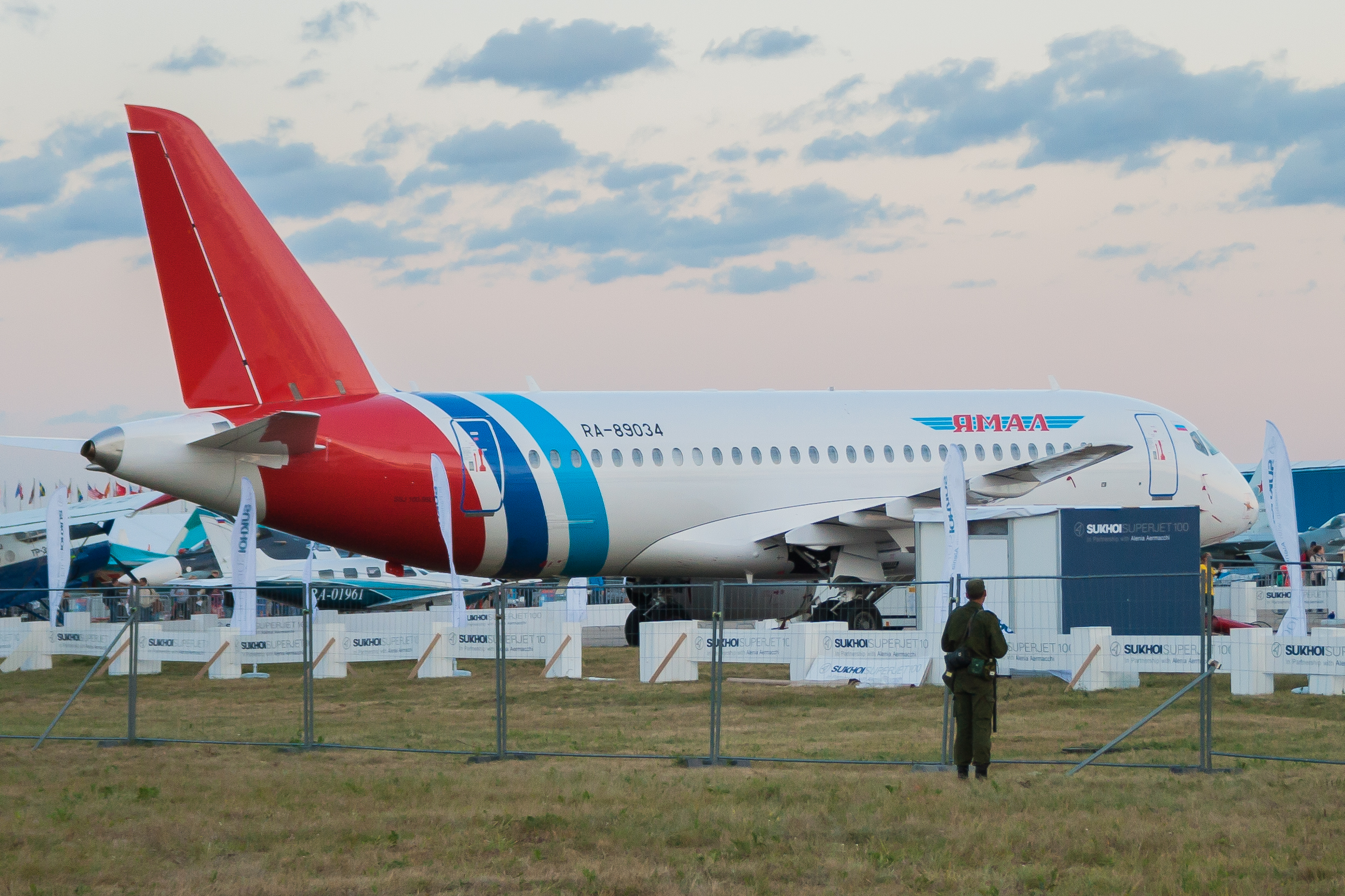 First Sukhoi Superjet 100 for Yamal Airlines at 2015 MAKS